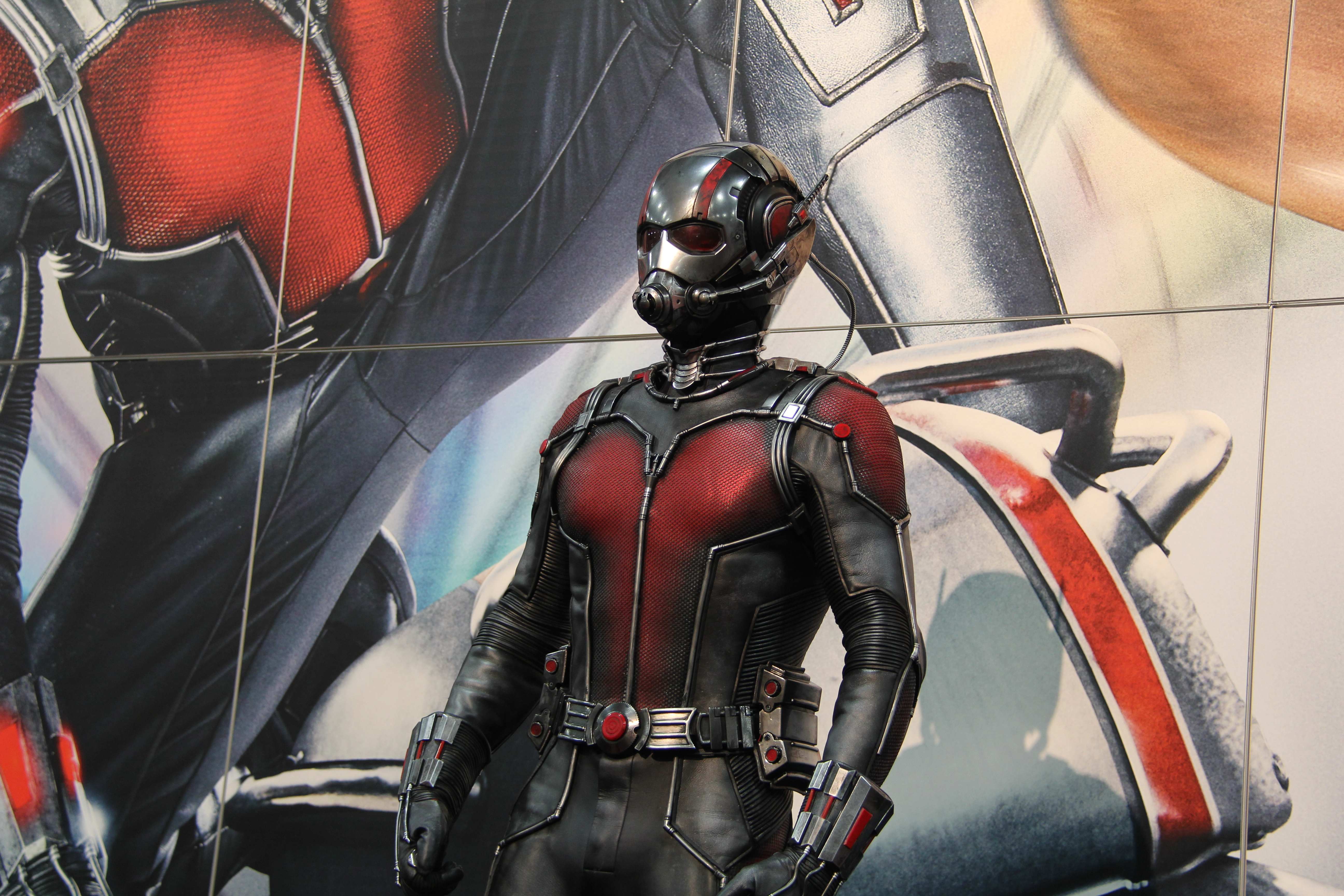 Ant-Man